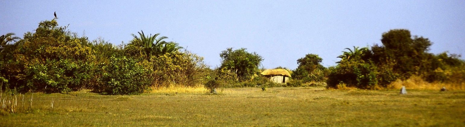 A house in the Bangweulu Swamps. A crested eagle is sitting on the tree at the far left.